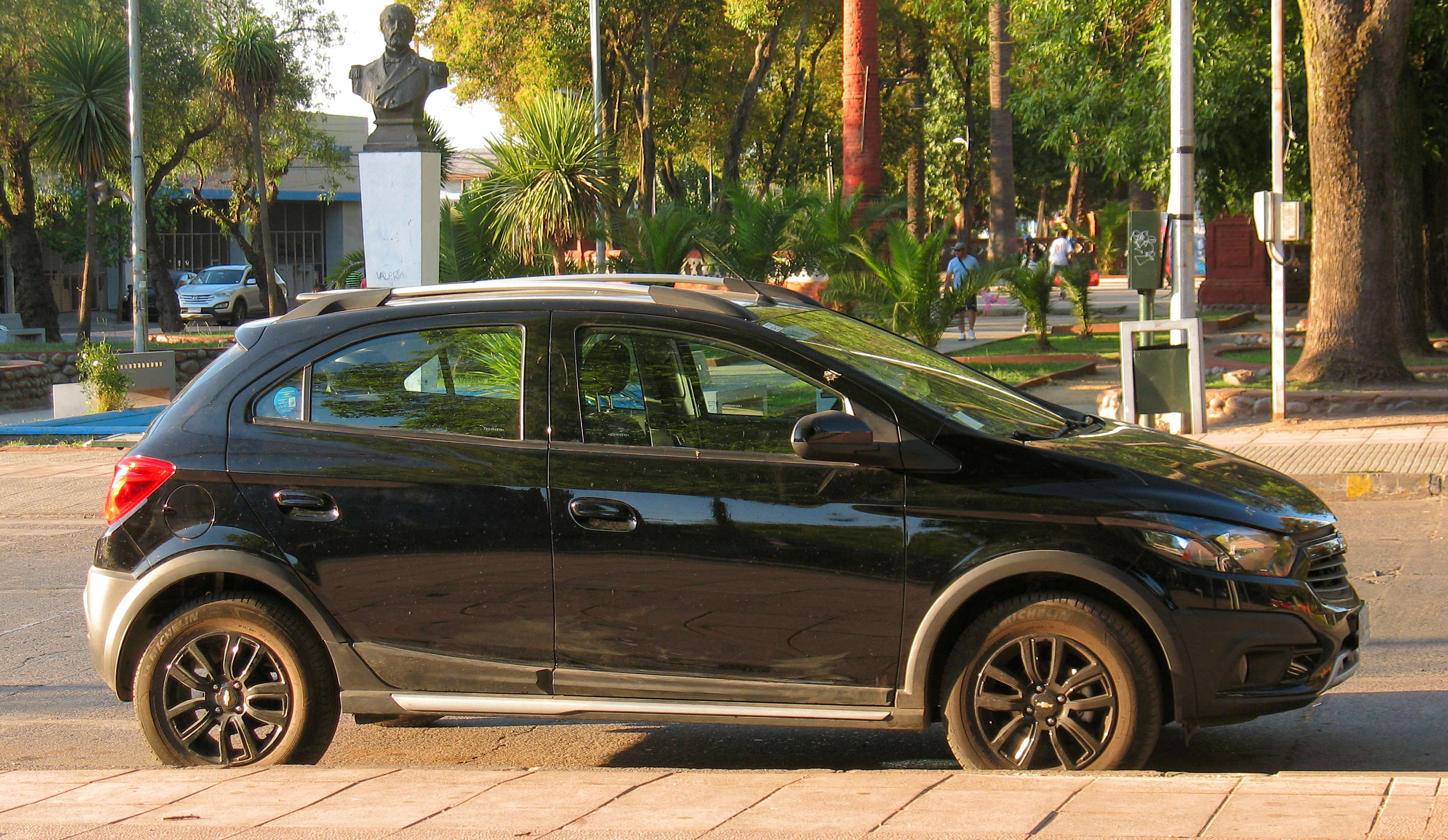 Chevrolet Onix 1.4 Activ 2019